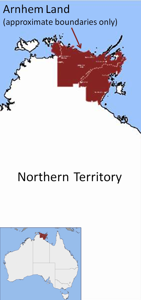 Location map showing approximate boundaries of Arnhem Land, Northern Territory, Australia